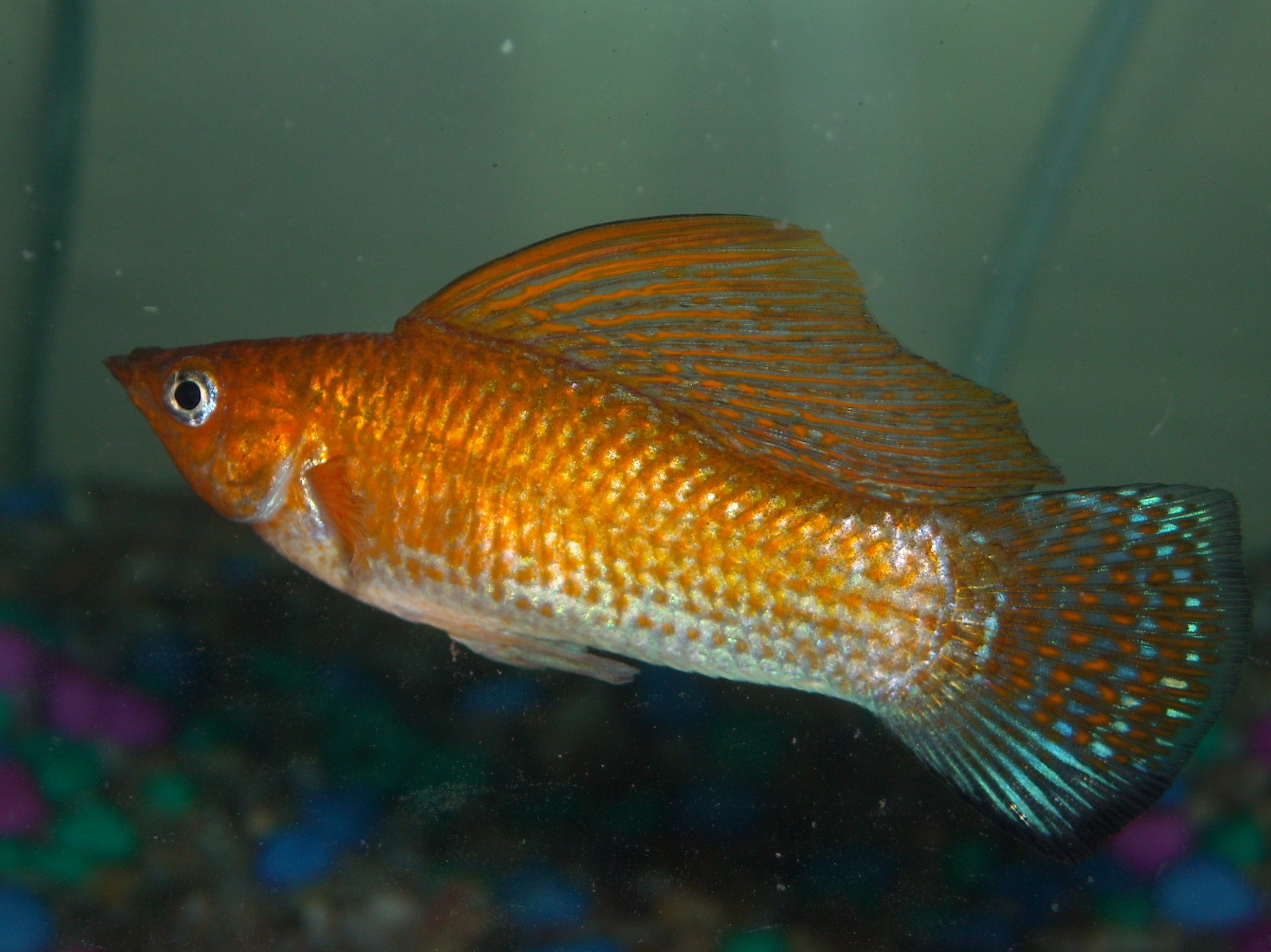 Poecilia velifera or Yucatan molly